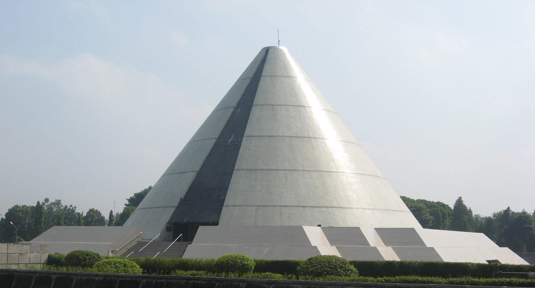 A picture of Monumen Yogya Kembali (also known as Monjali), which is a museum located in Sleman Regency, Yogyakarta, Indonesia.